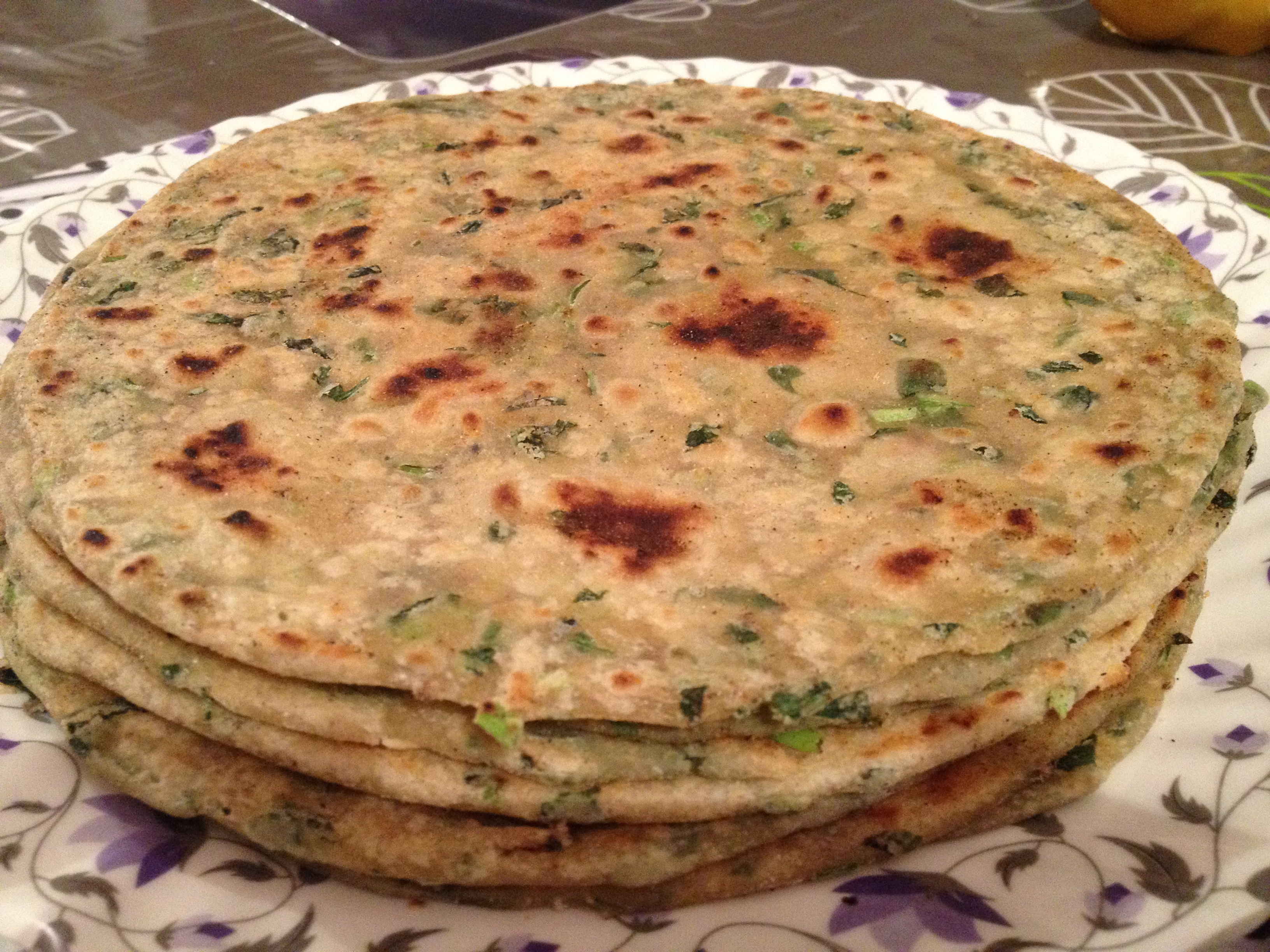 Methi Paratha by Fatima